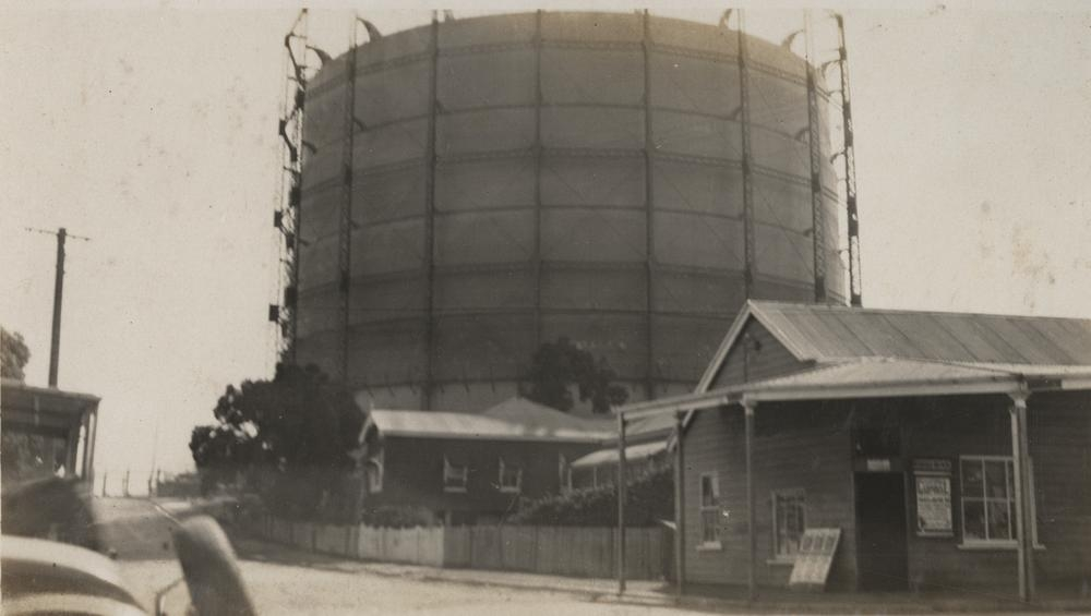 View of Kyabra Street looking towards the gasometer in Newstead Queensland